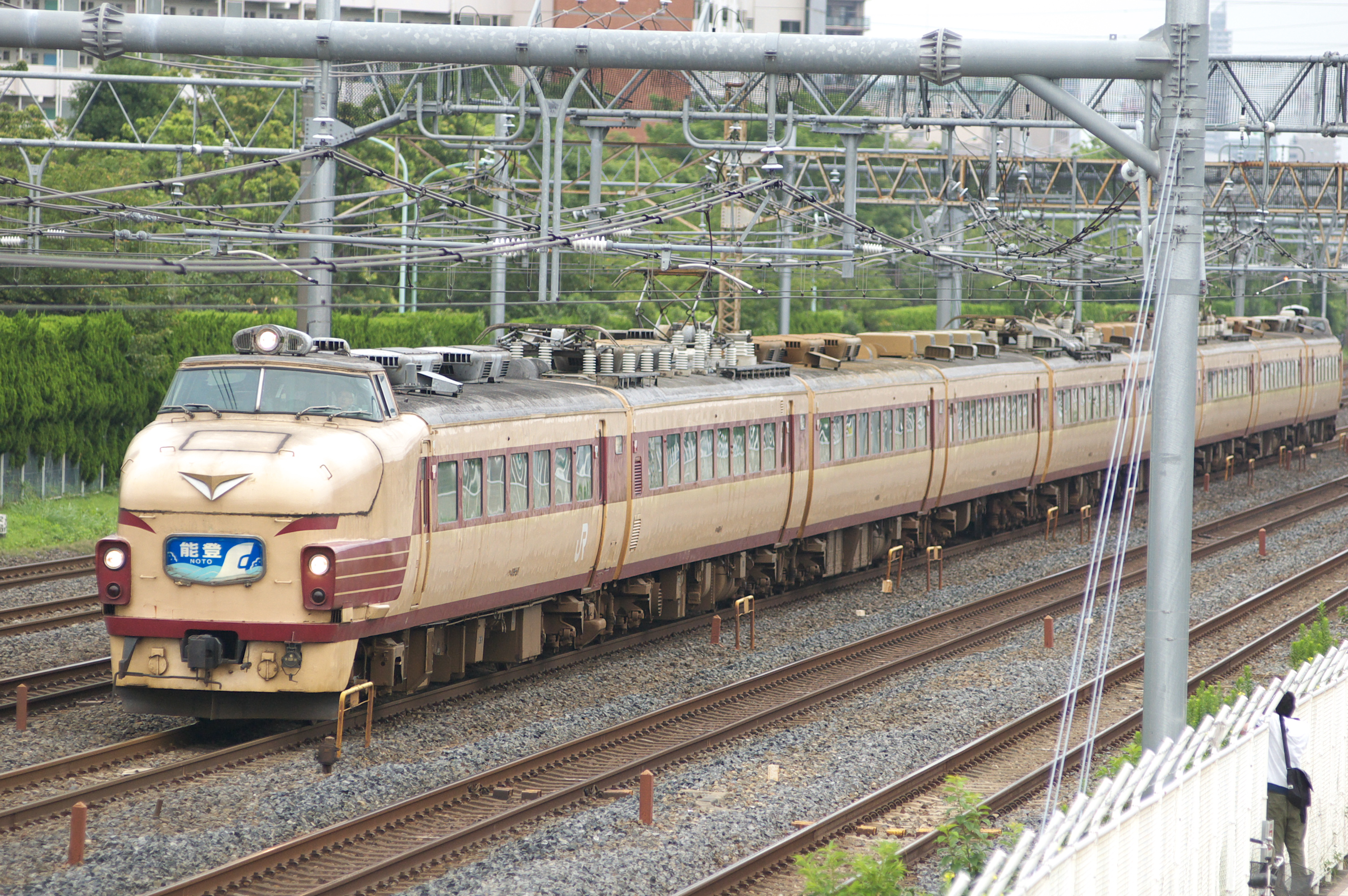 A JR West 489 series EMU on an up Noto overnight express service from Kanazawa to Ueno